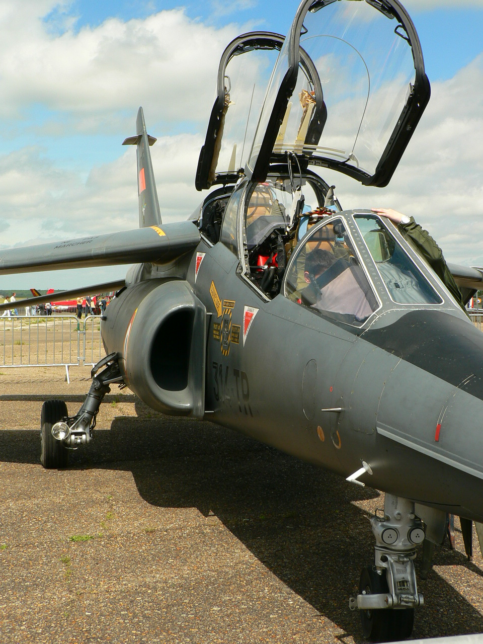 Alpha Jet E47 from French Air Force at Tours (France) air meeting.